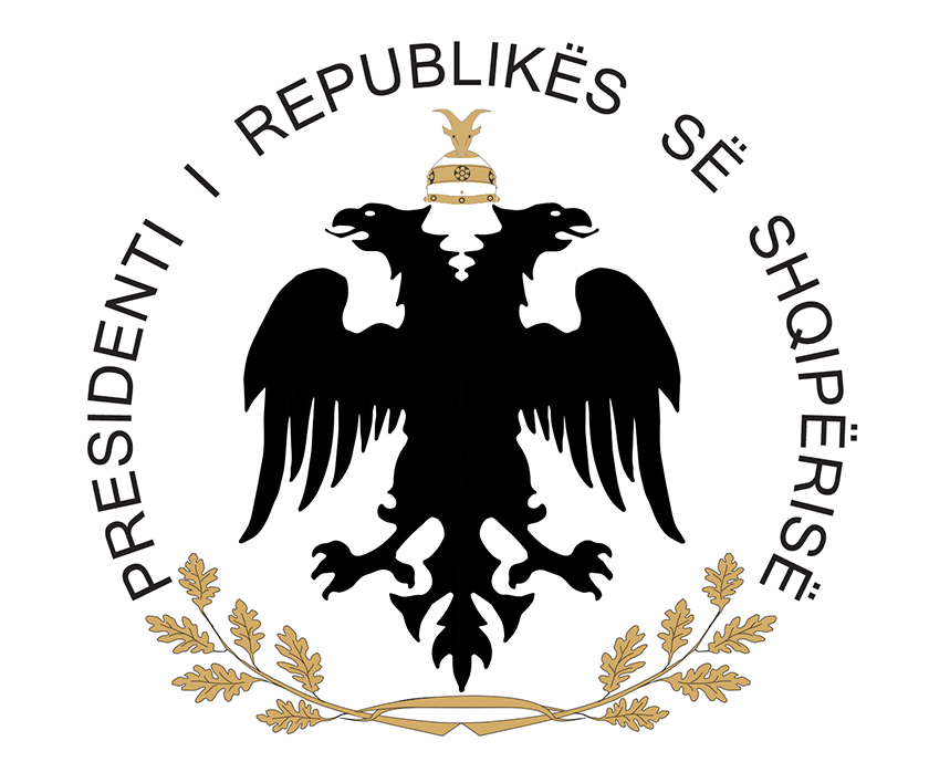 Emblem of the President of the Republic of AlbaniaShqip: Stema e Presidentit të Republikës së Shqipërisë